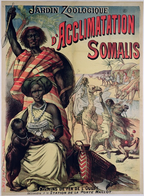 Poster advertising the Somali Park at Jardin Zoologique Paris in 1890